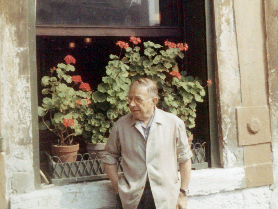 Jean-Paul Sartre in Venice; August of 1967.